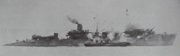 IJN No.1 class landing ship swept with fire